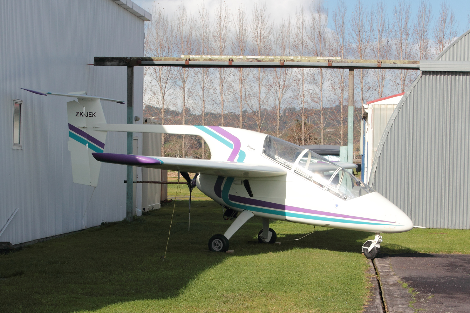 ZK-JEK Barber Snark HA/3 (001), , 09 July 2013 - Ardmore